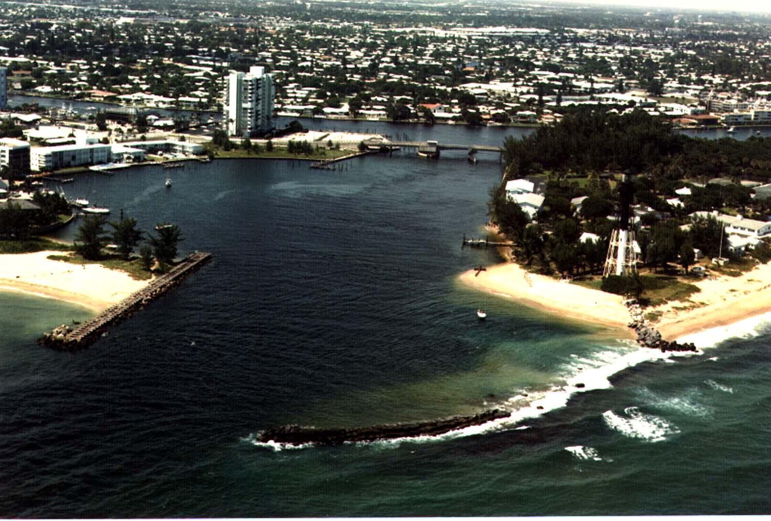 Aerial view of Hillsboro Inlet in Pompano Beach, Florida, USA. The inlet connects the Intracoastal Waterway with the Atlantic Ocean. View is from over the Atlantic Ocean, looking inland to the northwest. A section of the Intracoastal Waterway is visible running left–right across the center of the picture. Coordinates: 26°15′35.15″N 80°4′57.39″W / 26.2597639°N 80.0826083°W